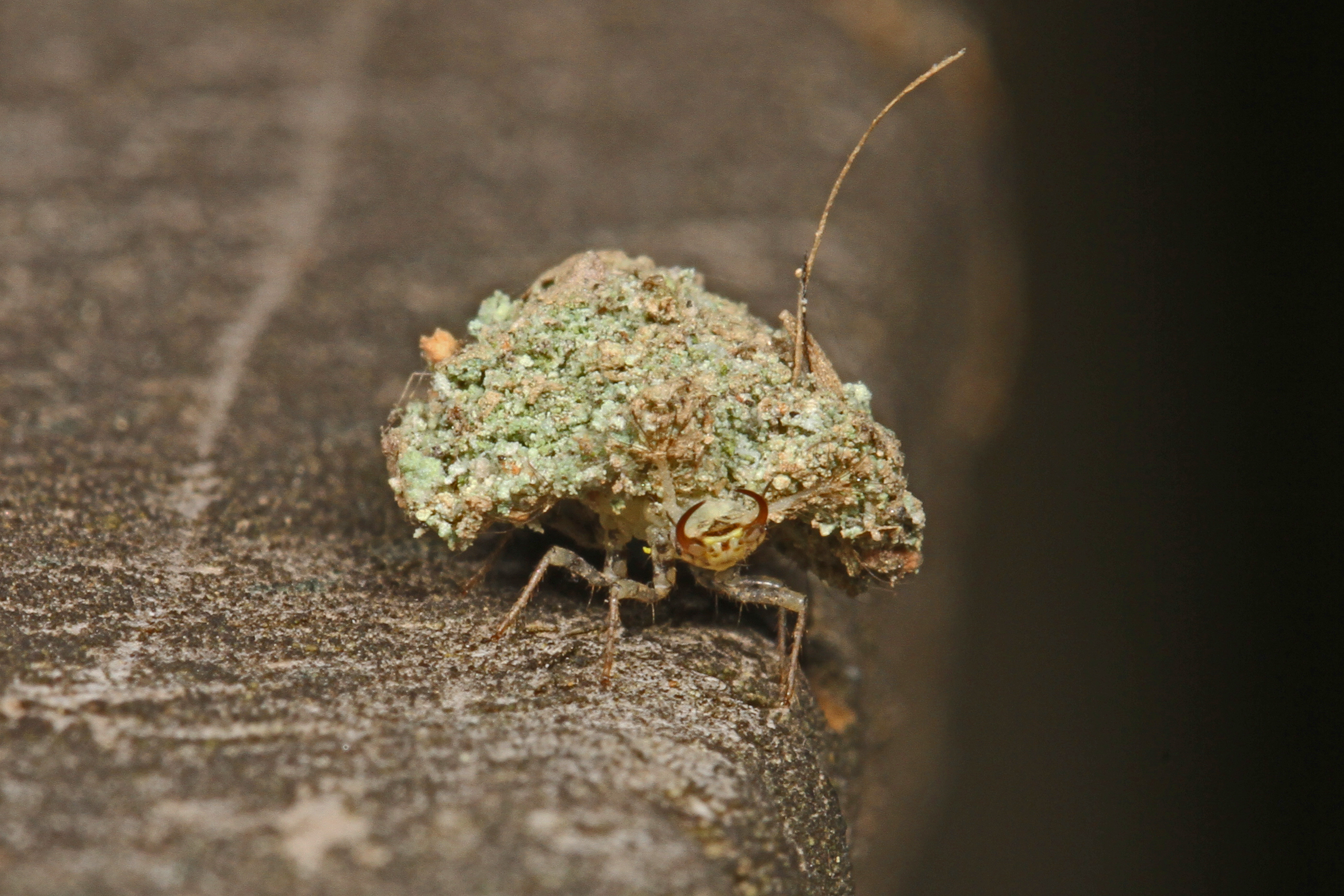 Green Lacewing larva - Leucochrysa species, Leesylvania State Park, Woodbridge, Virginia. Lichen on legs - it's always amusing to see these camouflaged creatures moving around. This species attaches lichen to its back, but some other species attach insect carcasses as well. These larvae are fierce predators.